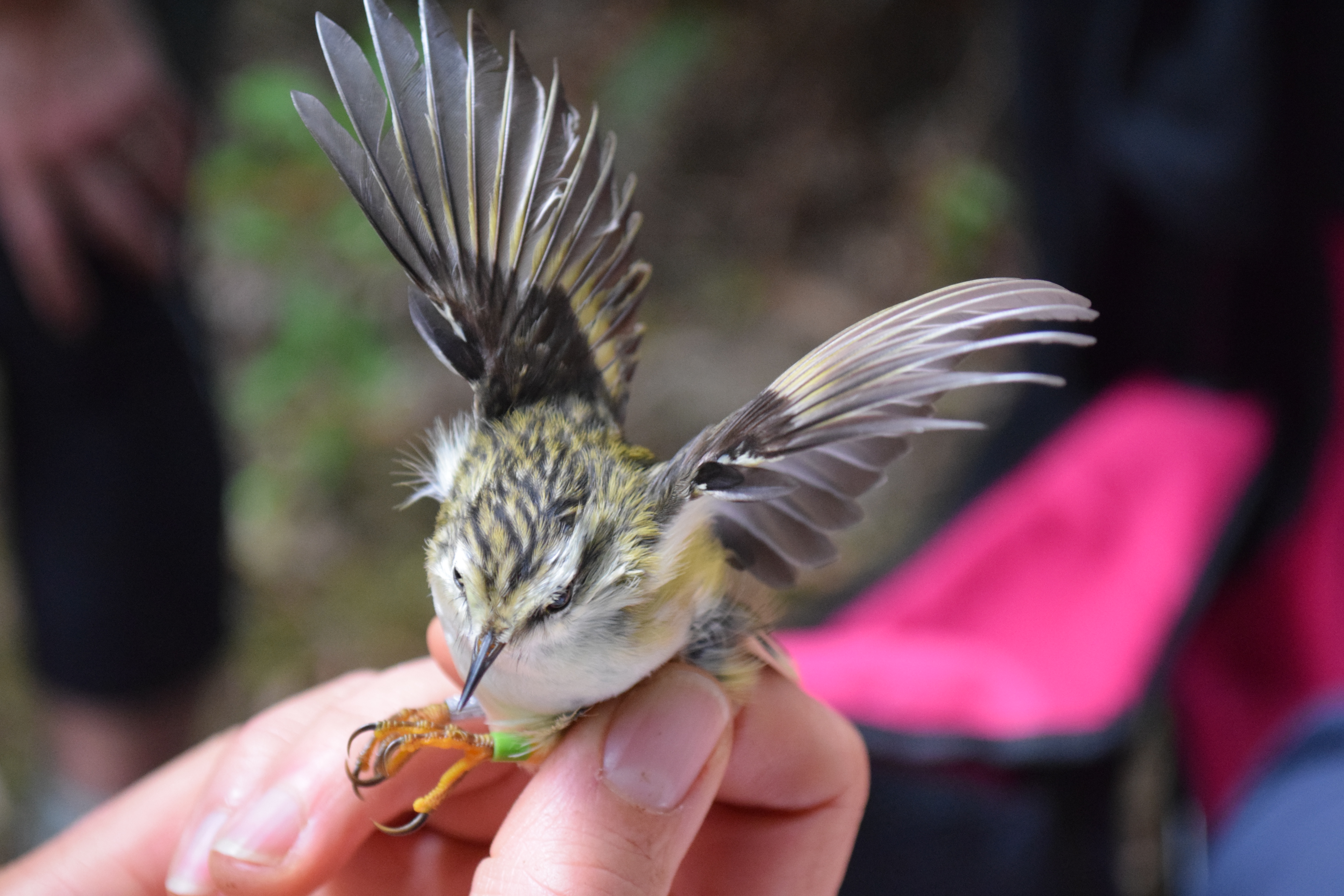 Zealandia Titipounamu translocation - this bird is displaying after having been banded